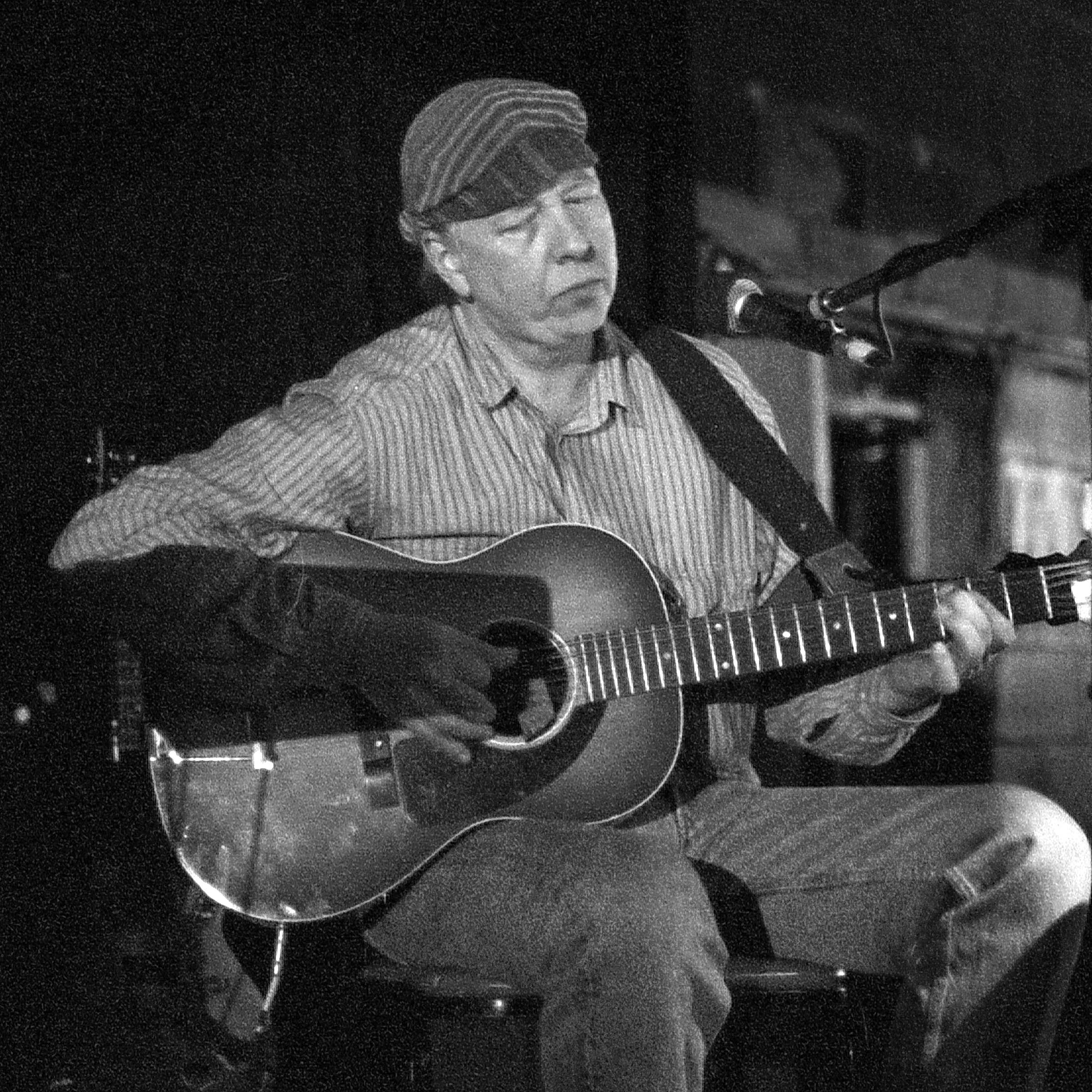 Dave Ray performing at The Cabooze, Minneapolis, 1993